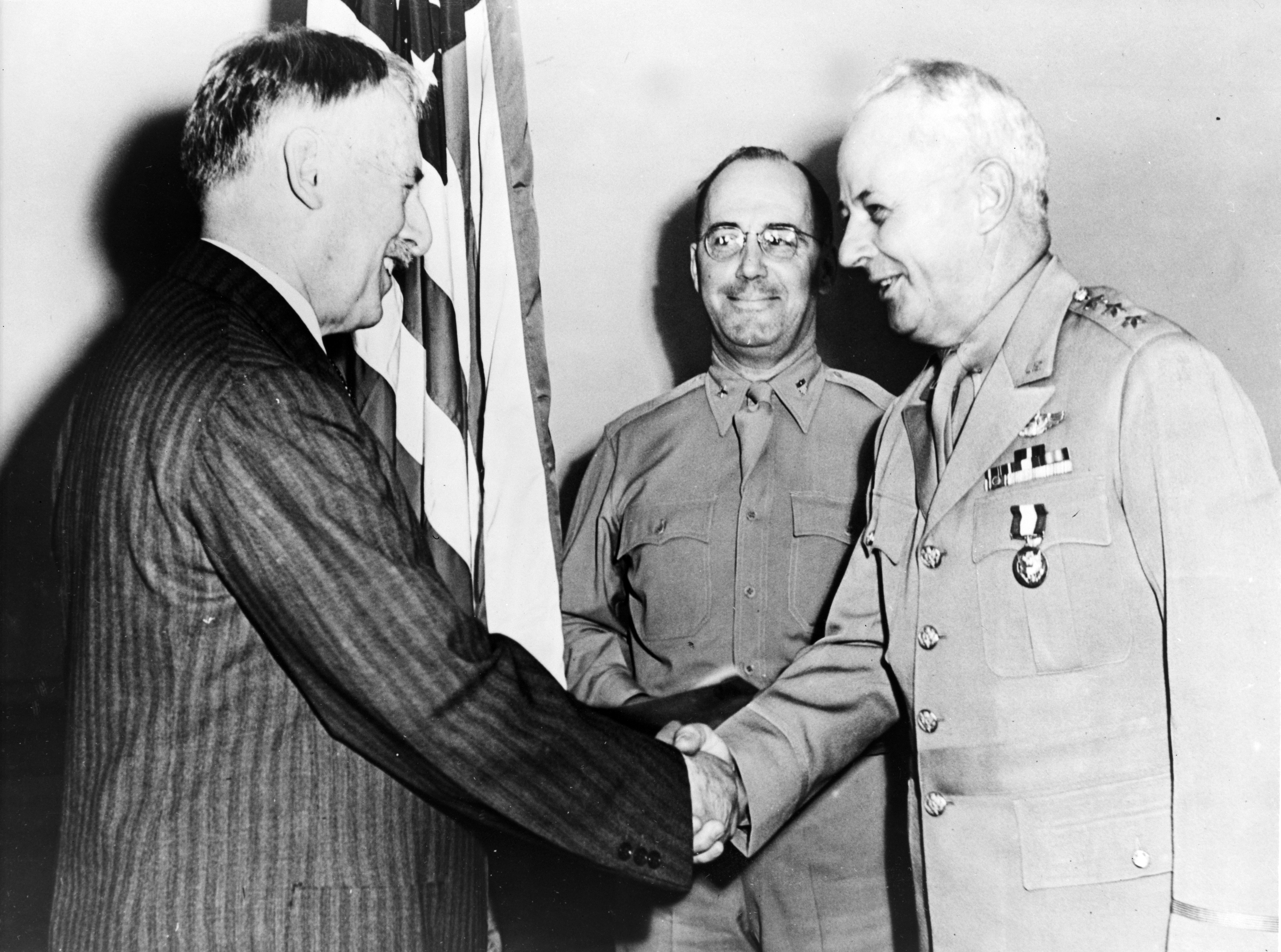 Henry L. Stimson, Secretary of War, shaking hands with Lt. General Delos Carelton Emmons after awarding him the Distinguished Service Medal; standing in the background is Brig. Gen. H. B. Lewis.